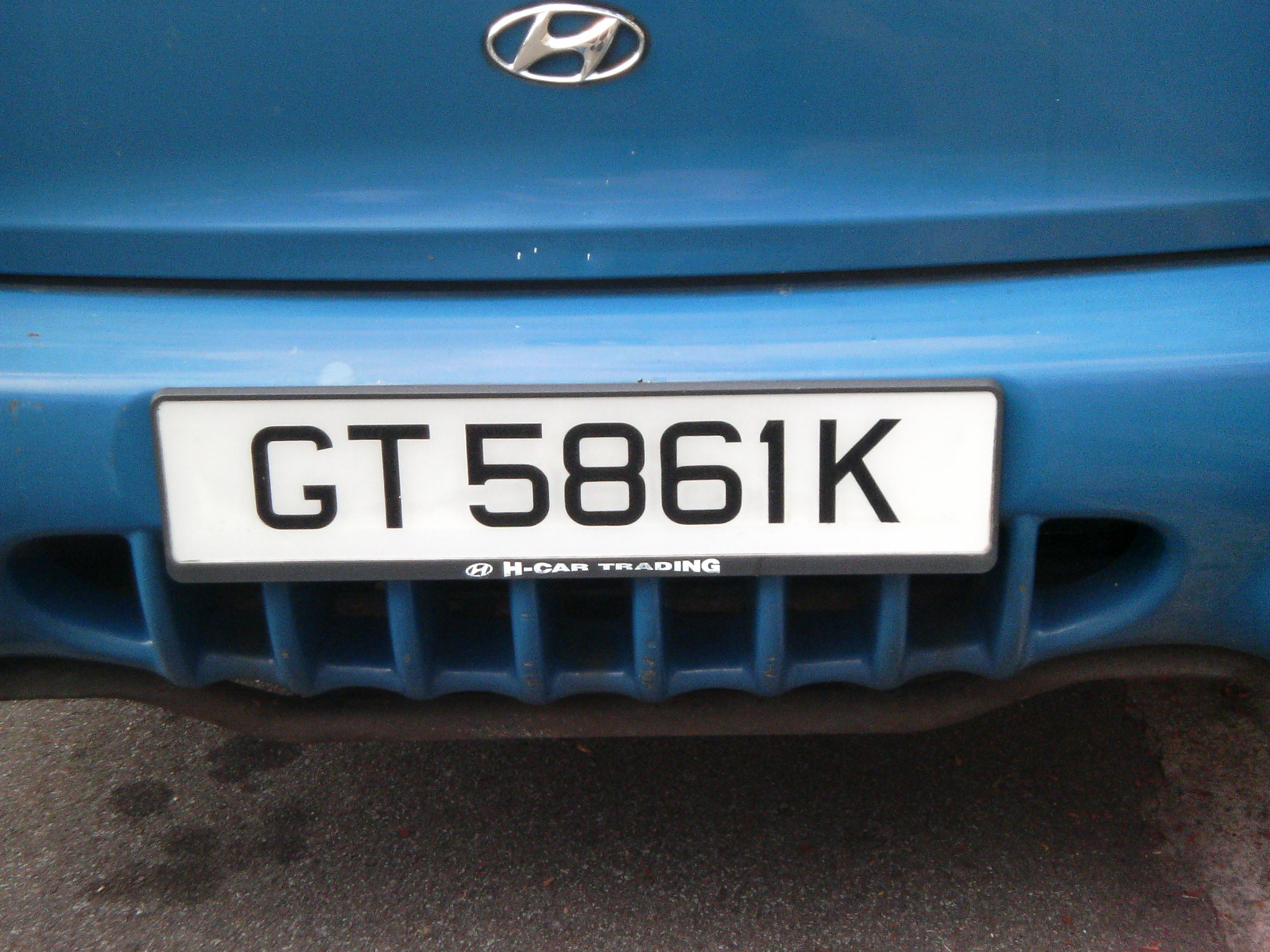 A Singapore black-on-white front vehicle registration plate on a blue Hyundai vehicle.